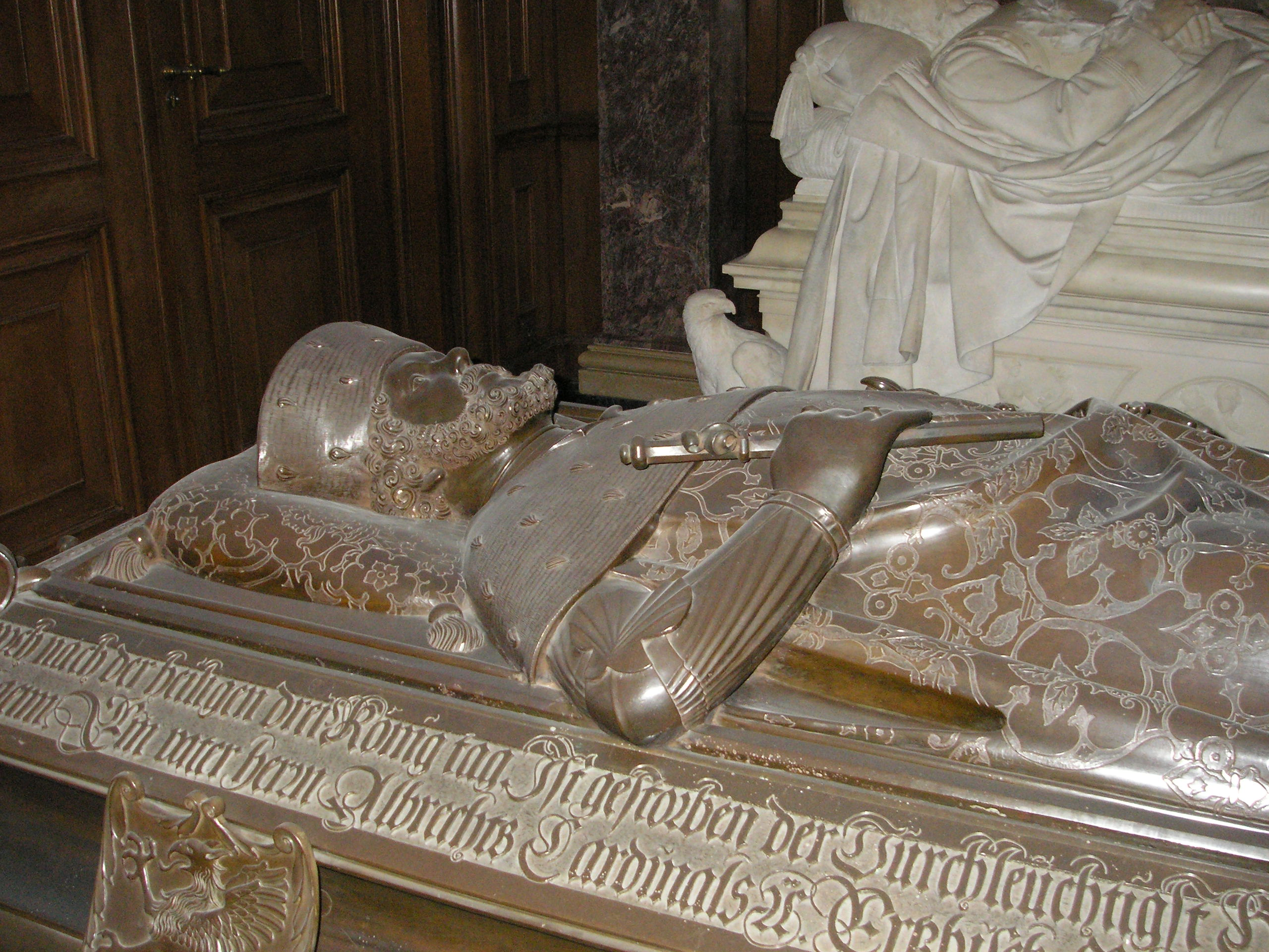 Tomb of Elector Johann Cicero of Brandenburg (1455-1499)